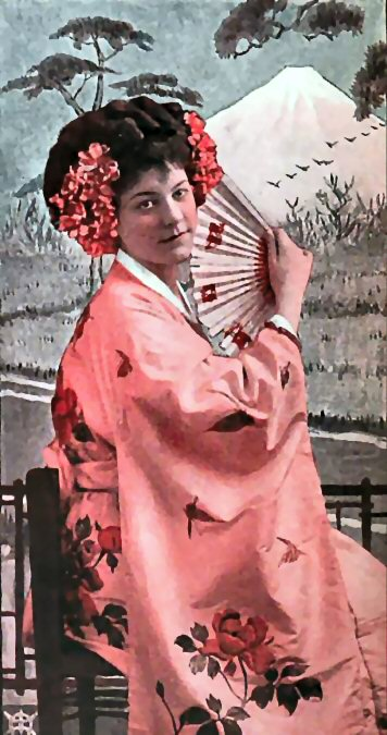 Vera Michelina in Funbashi, 1908